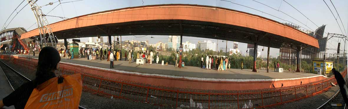 Bandra railway station platform